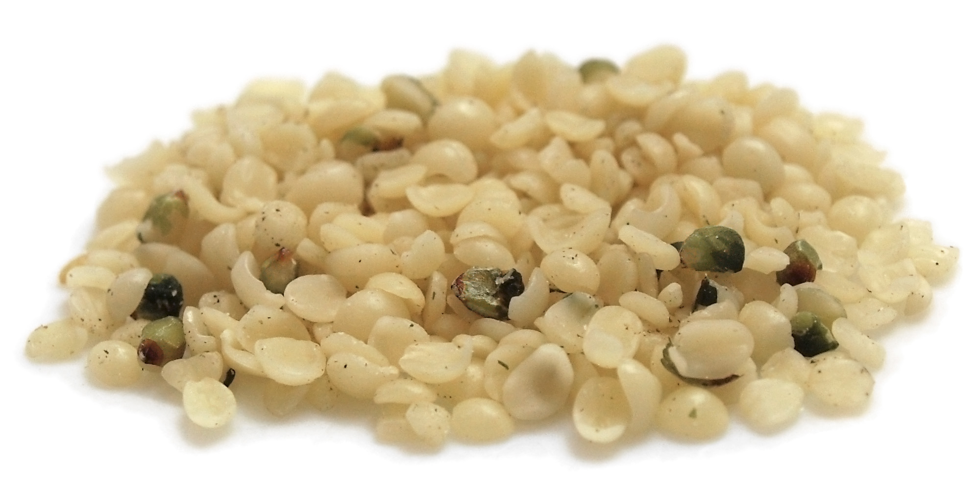 Food shelled hemp seeds